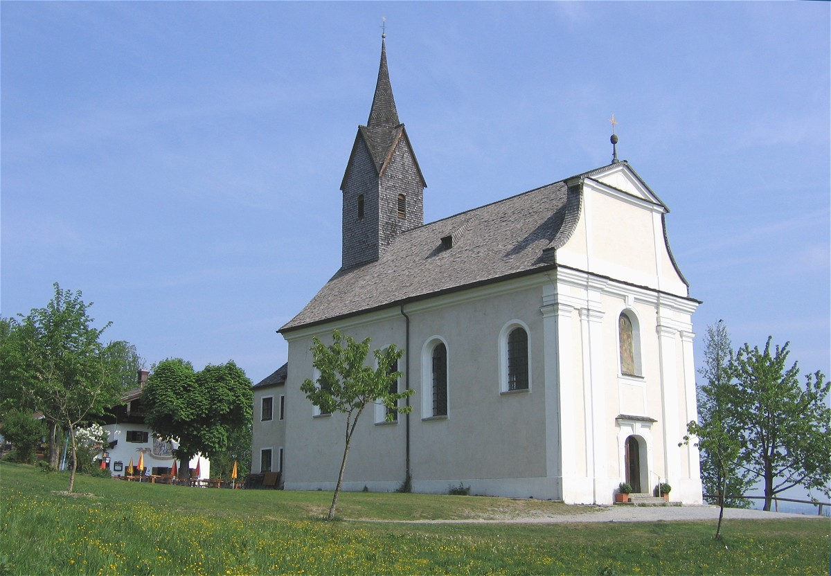 Schwarzlack, view of the Sanctuary of Saint John of Nepomuk and Saint Mary of Help from south-east.